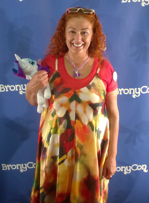 Tabitha St. Germain at BronyCon 2014. Taken at Baltimore Convention center during her press conference.